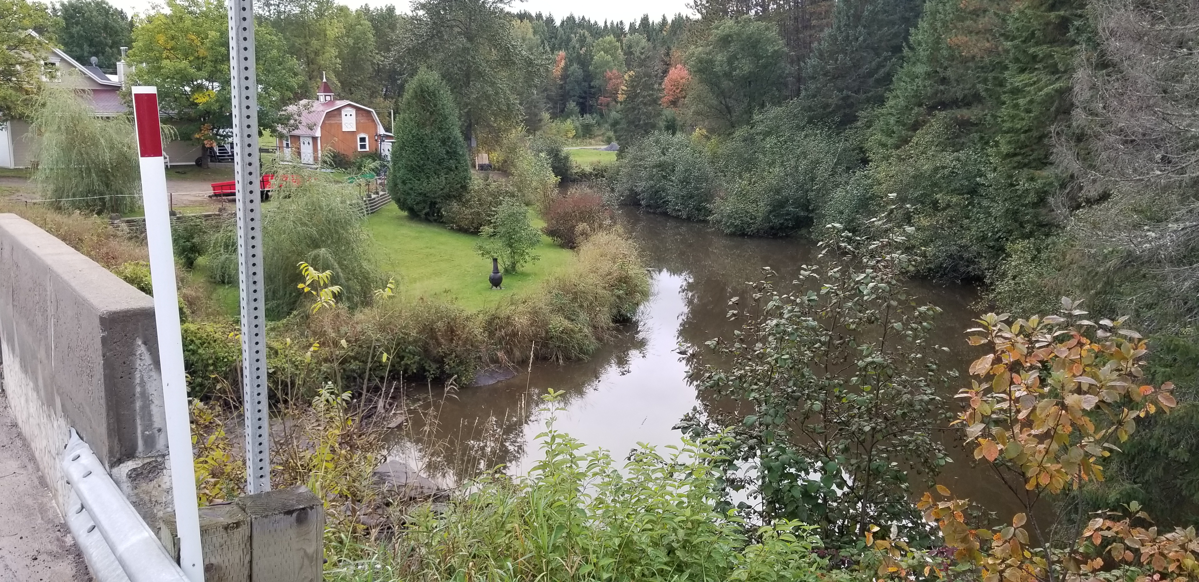 View of the Pierre-Paul River upstream from the Highway 352 bridge at the village of Saint-Adelphe on the right bank of the Batiscan River.